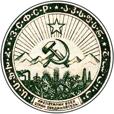 Emblem of the Transcaucasian SFSR 1924